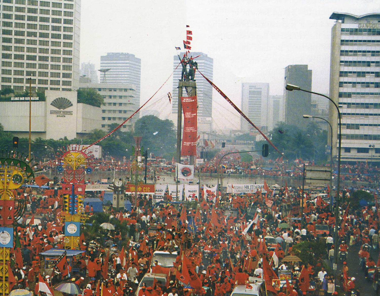 Members of PDI–P under the leadership of Megawati during the campaign in the 1999 General Election